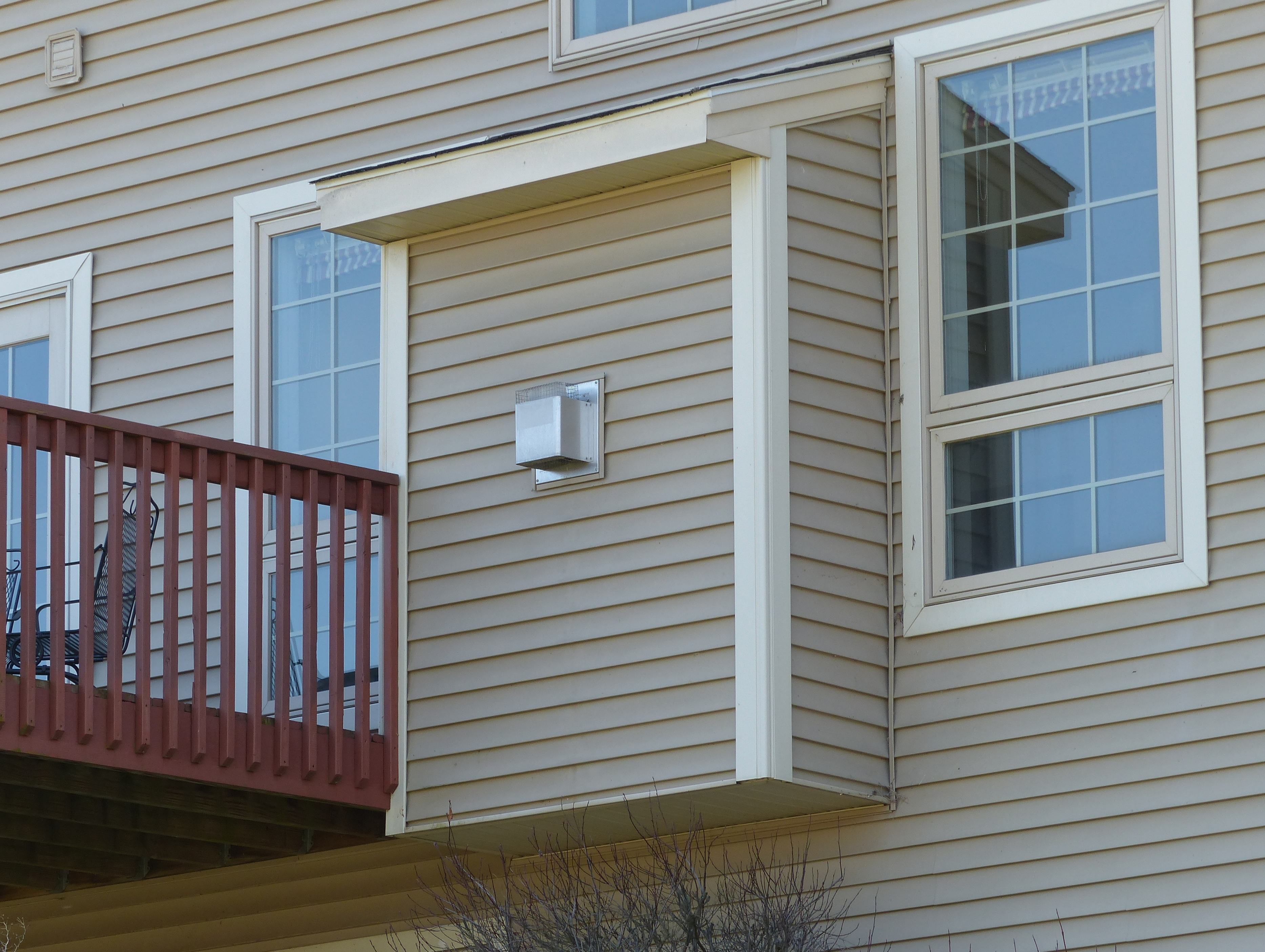 Conhocton Road, Aurene, Painted Post; what the heck did the architect think when they added this box attachment?!